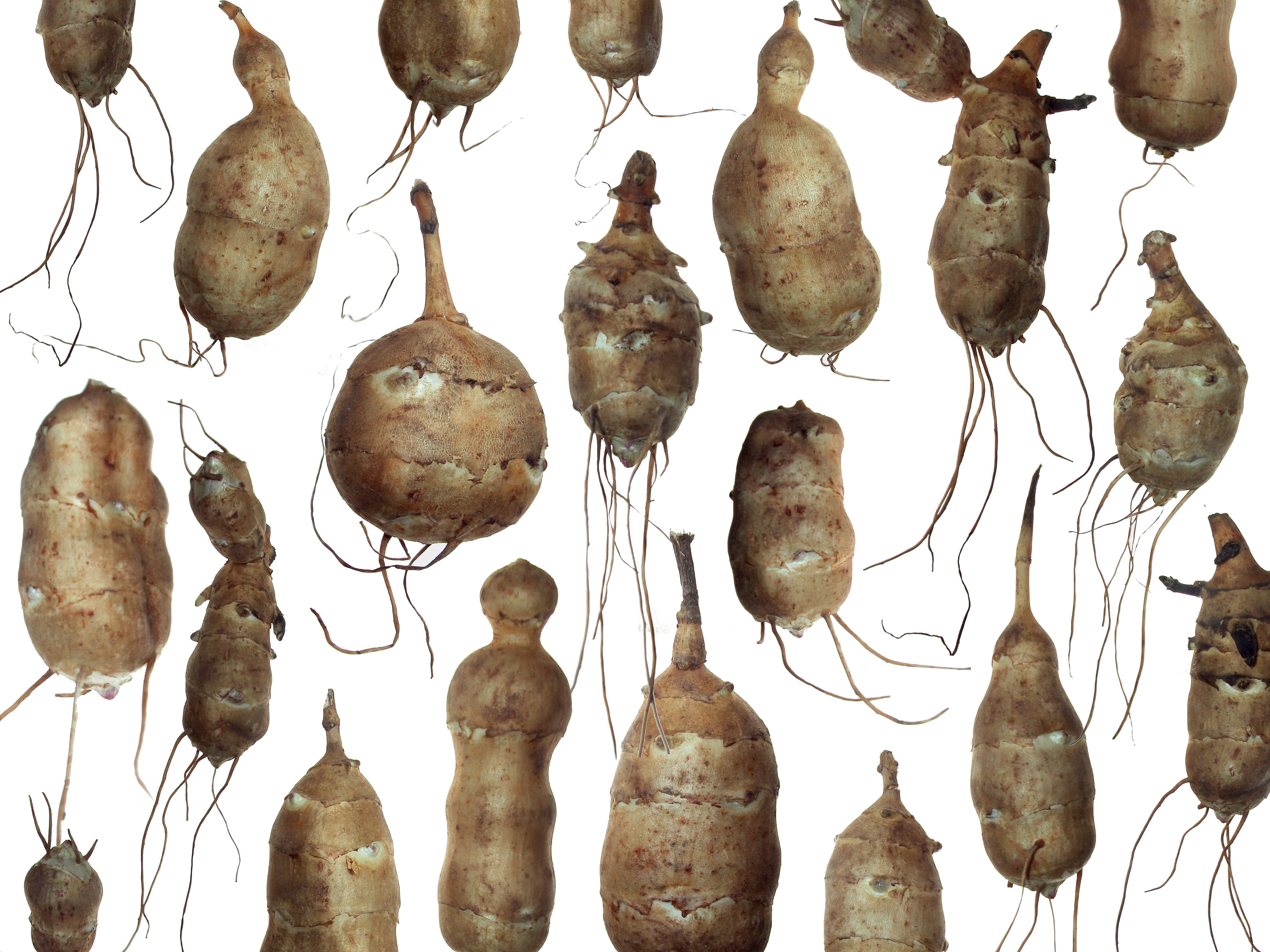 Roots of the Jerusalem artichoke (Helianthus tuberosus)